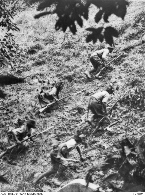 AWM Caption: GEMAS, MALAYA. 1942-01-14. JAPANESE TROOPS ADVANCING DURING THE INVASION OF THE MALAYAN PENINSULA WHICH CULMINATED IN THE SURRENDER OF ALL BRITISH FORCES AND THE FALL OF SINGAPORE